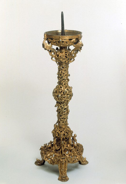 The Gloucester Candlestick, early 12th century, V&A Museum no. 7649-1861. Dimensions - Height 58 cm, width 20 cm, depth 20 cm, weight 5.76 kg